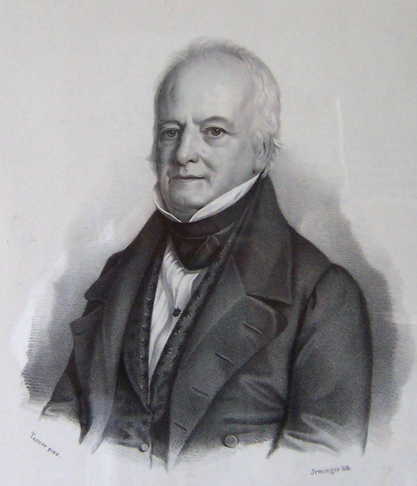 Johann Matthias Naeff, Lithographie from C. F. Irminger after a painting of Tanner